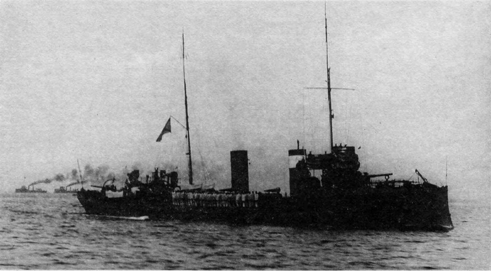 The Imperial Russian destroyer Sibirskiy Strelok.